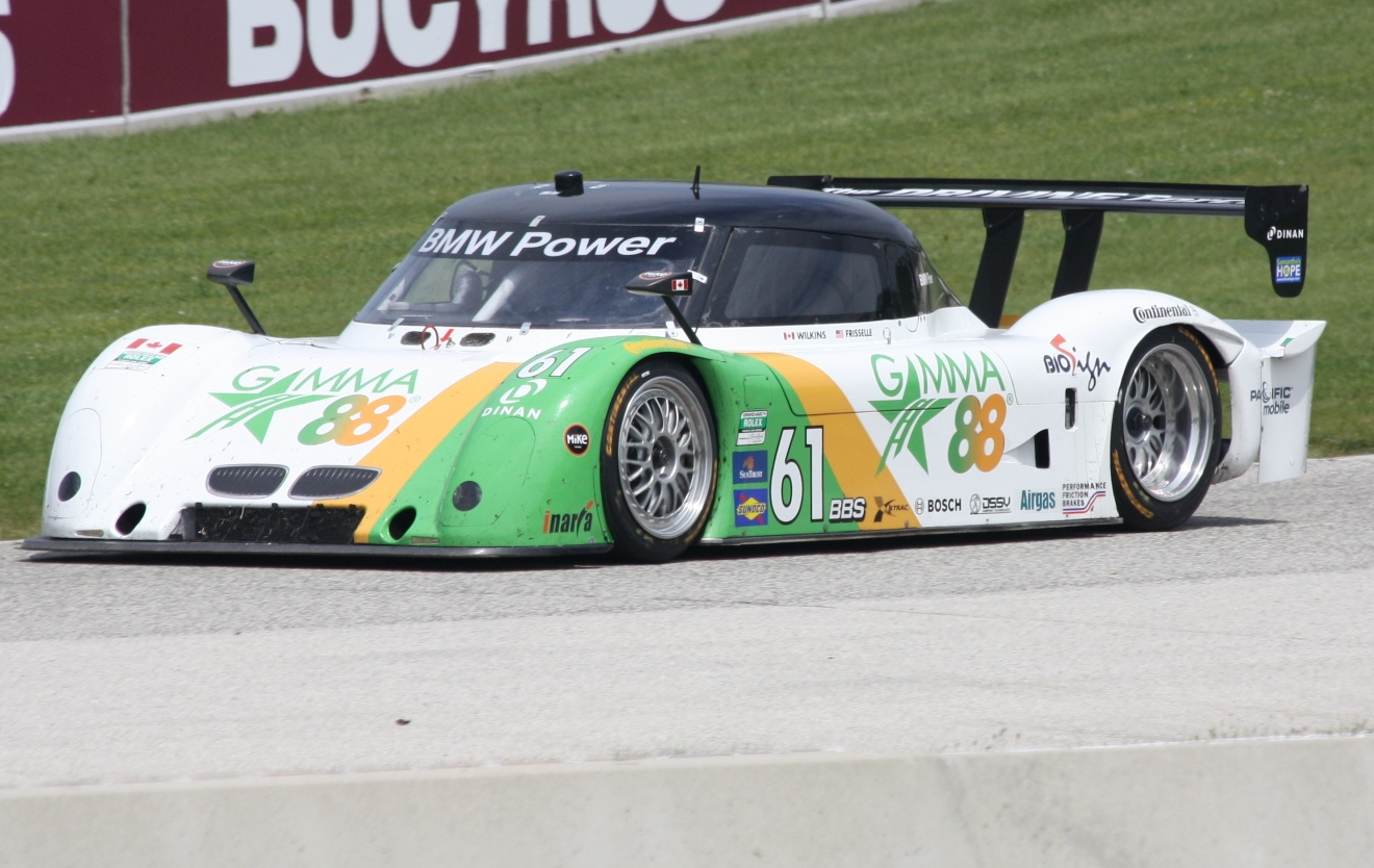 The Daytona Prototype of Burt Frisselle Mark Wilkins racing in Grand-Am sports car at Road America.